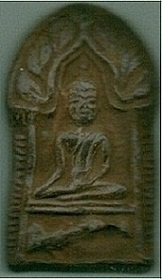 Sacred Buddhist Amulet Created and Blessed in Wat Wangtakian Temple